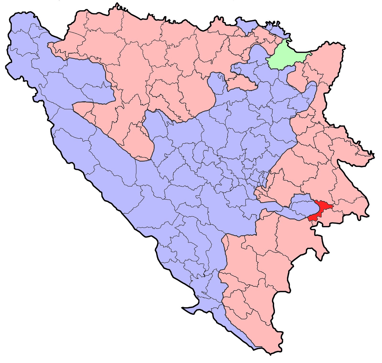 Location of Ustiprača (Novo Goražde) municipality in Bosnia and Herzegovina.